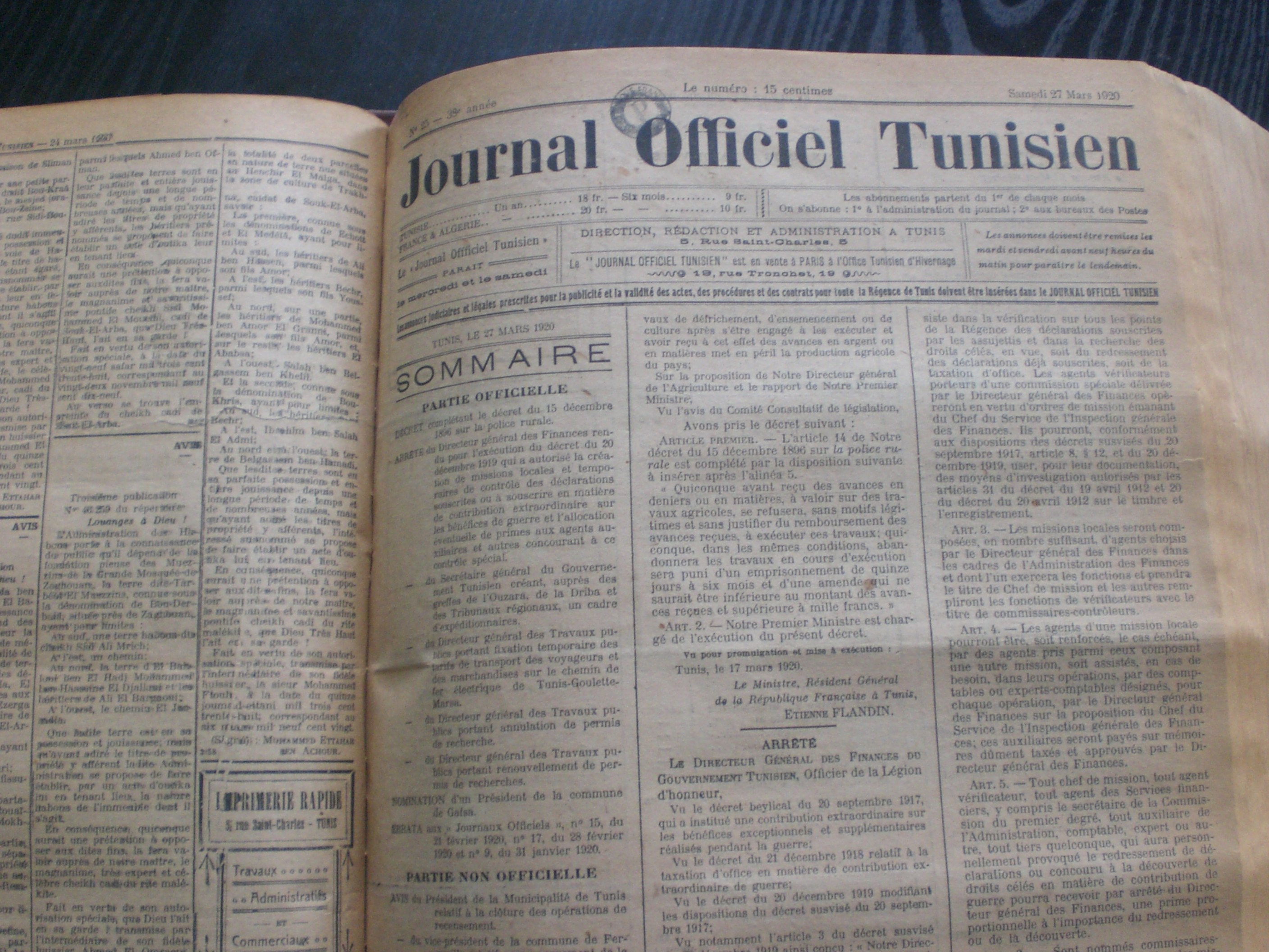 The Jounal officiel Tunisien